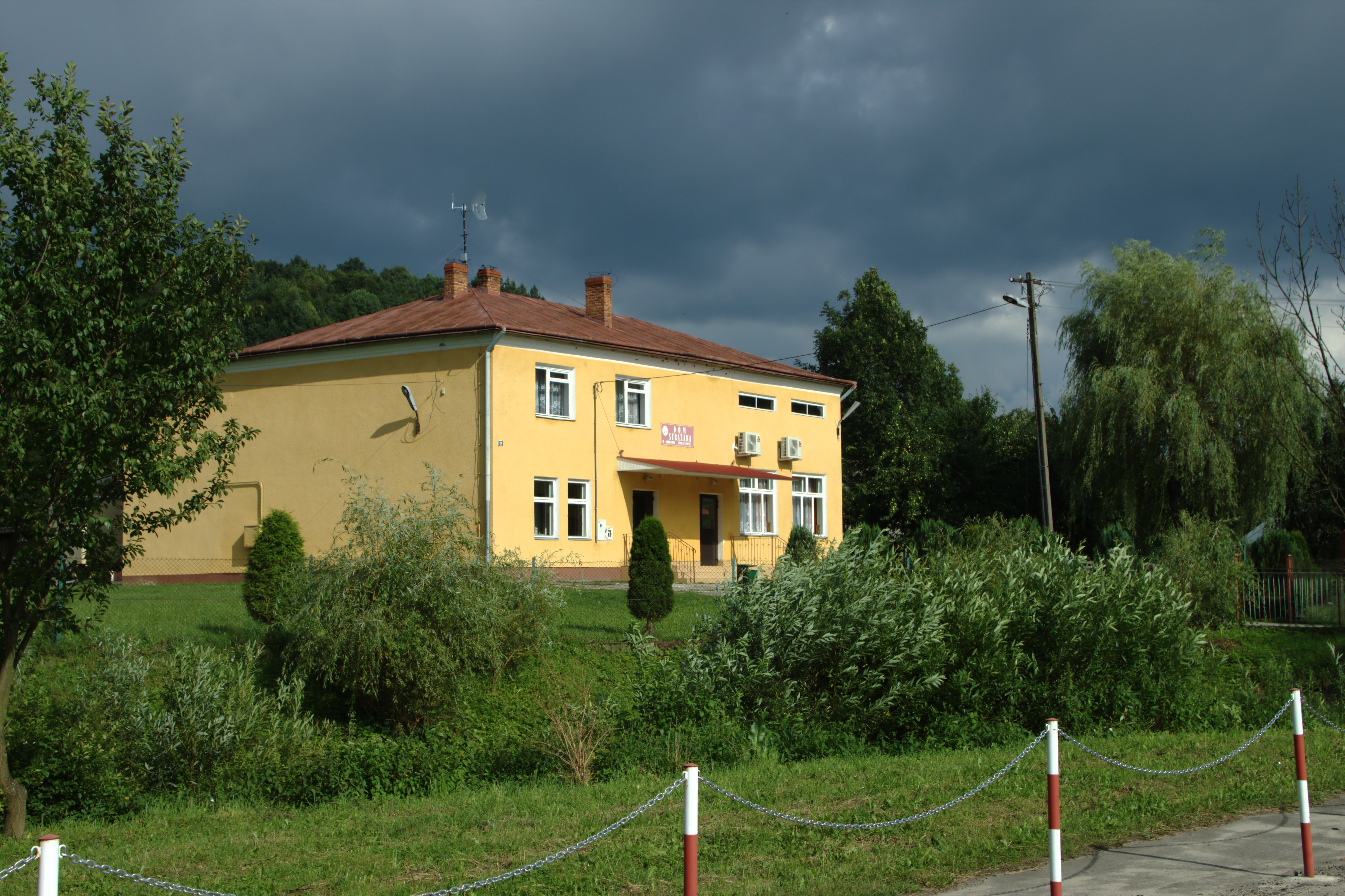 Fire station in Dąbrówka Starzeńska, Podkarpackie voivodeship, PL